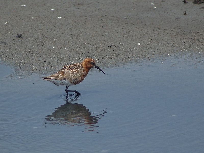 Calidris ferruginea, （滸鷸．彎嘴濱鷸）, Yunlin County, Taiwan, 2008.